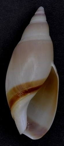 Seashells of Ancillista cingulata (G. B. Sowerby I, 1830)[1] from the collection of Naturalis Biodiversity Center, Taken in Cape York Peninsula, Australia.